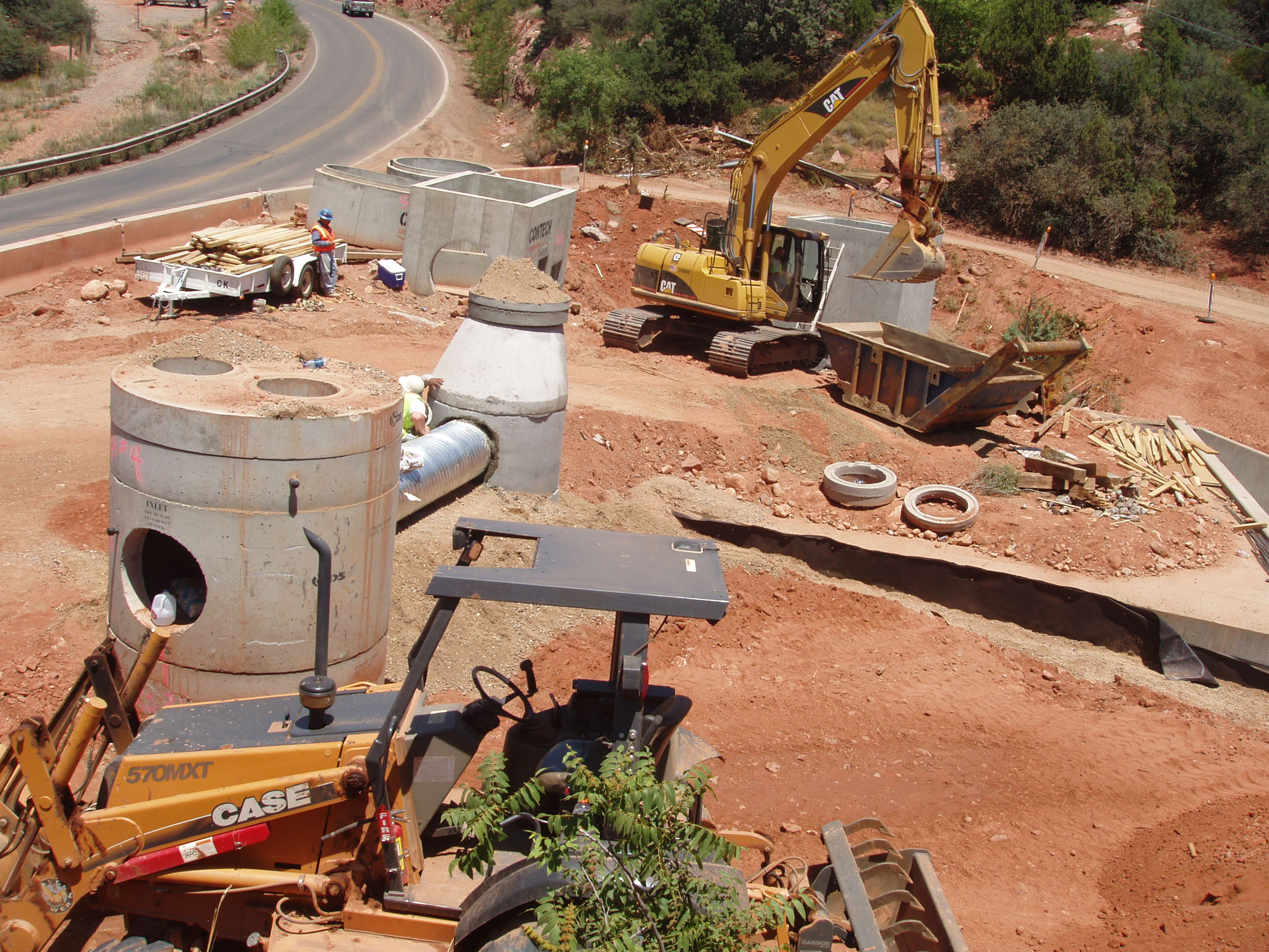 A Stormcepter oil/sediment filtering device as it was being installed. This precast concrete system is designed to capture and remove a wide range of particle sizes, as well as free oils and suspended solids from storm water, and was used on the FHWA, Highways for LIFE supported project. Photo courtesy of Applied Research Associates (ARA)